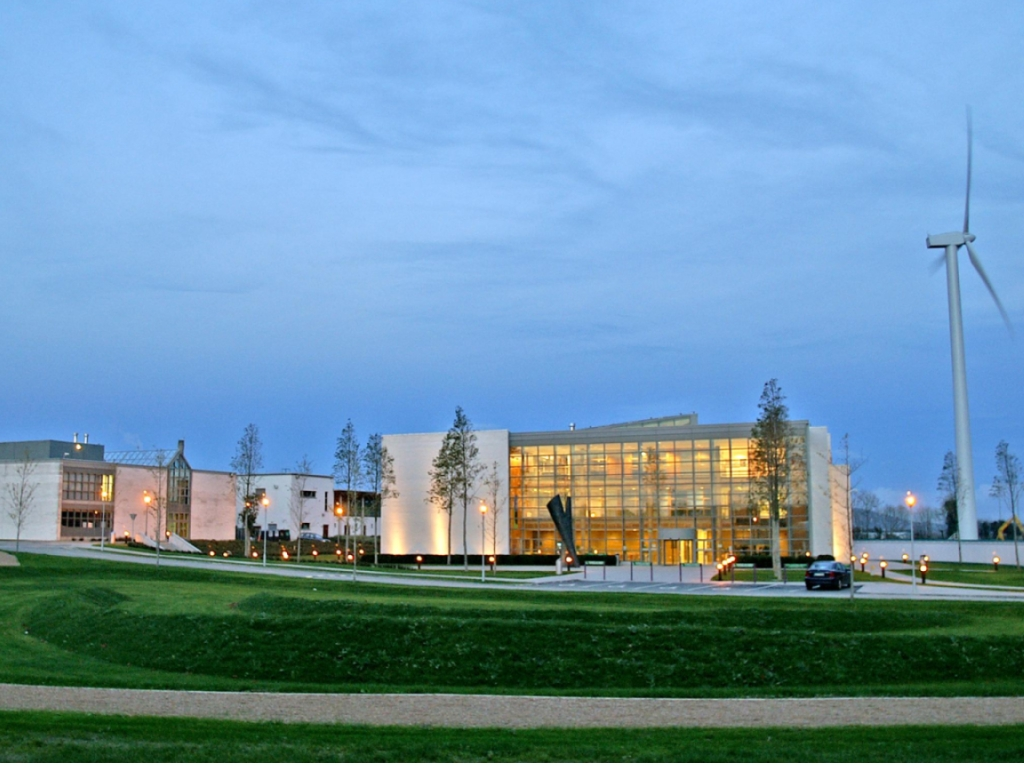 One of the photos we took for inclusion in the DkIT wallpaper pack, which can be downloaded freely at